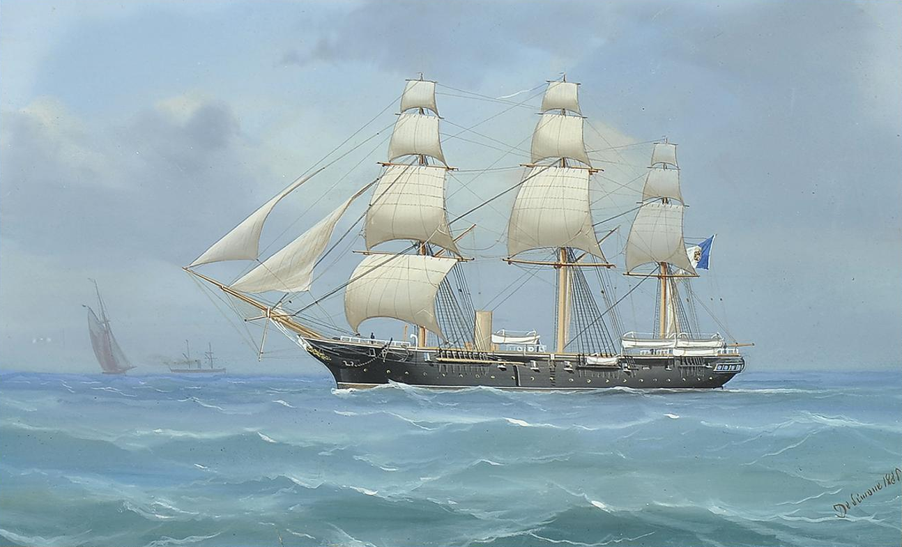 A 19th-century sailing ship flying the Portuguese flag.